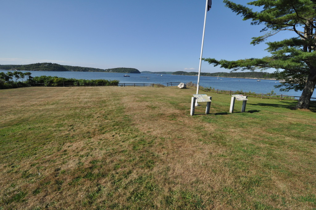 Site of Fort George, the fortified element of the early 17th-century Popham Colony in what is now Phippsburg, Maine.